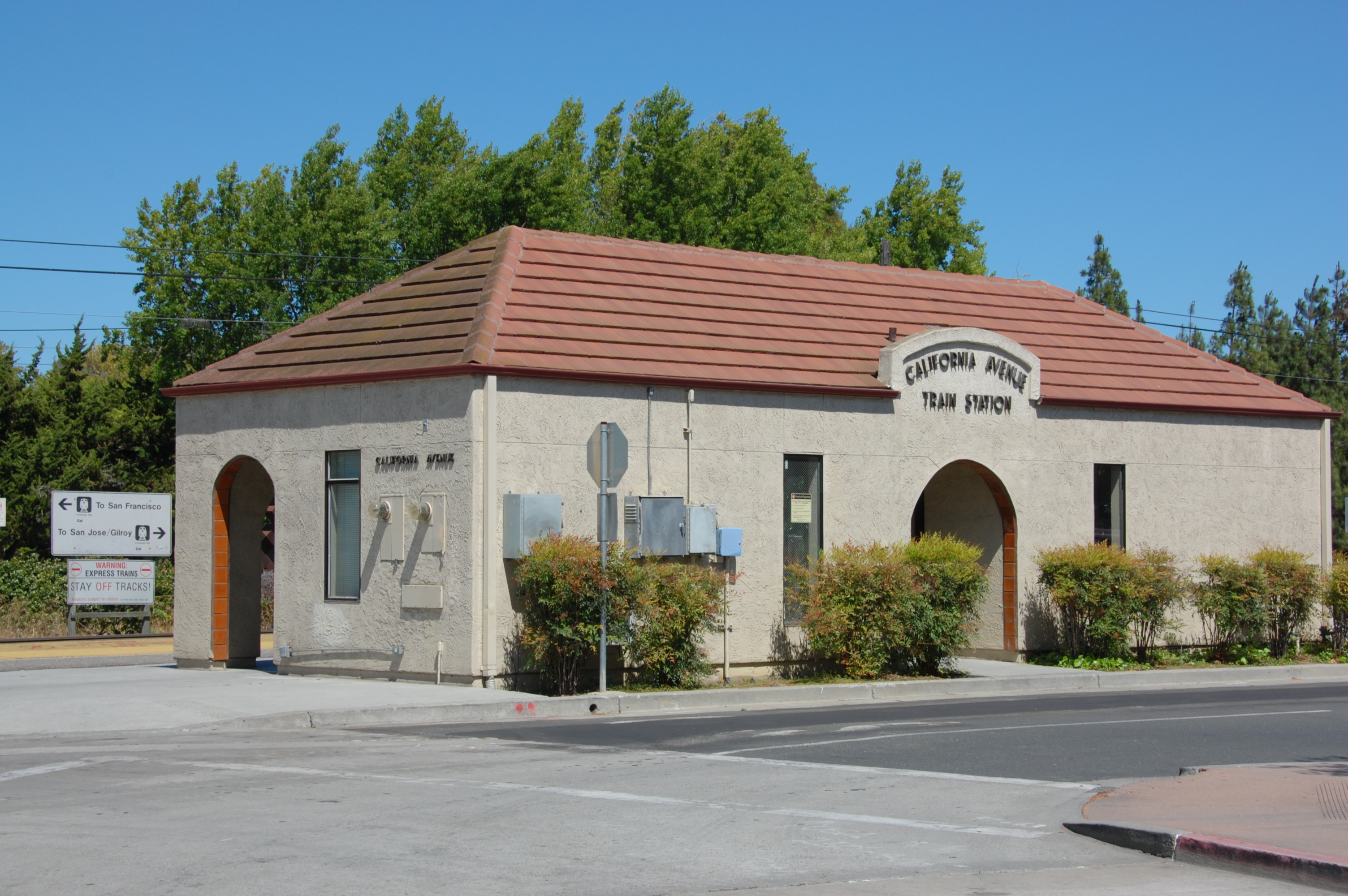 California Avenue Caltran train station, Palo Alto, California, USA.